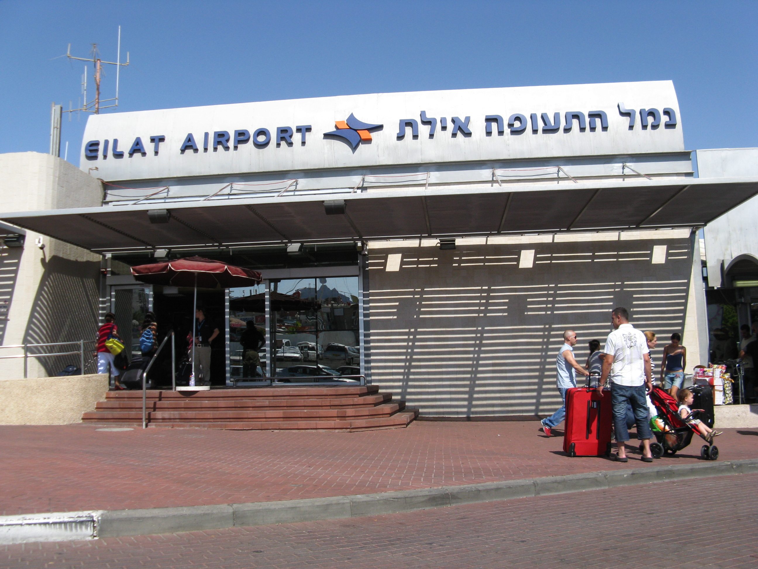 The entrance to Eilat Airport